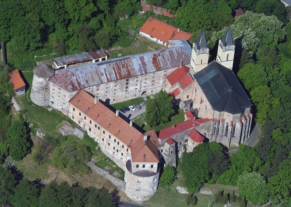 Hronský Beňadik, Slovakia, monastery, aerial photography